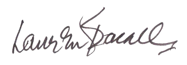 Lauren Bacall's signature